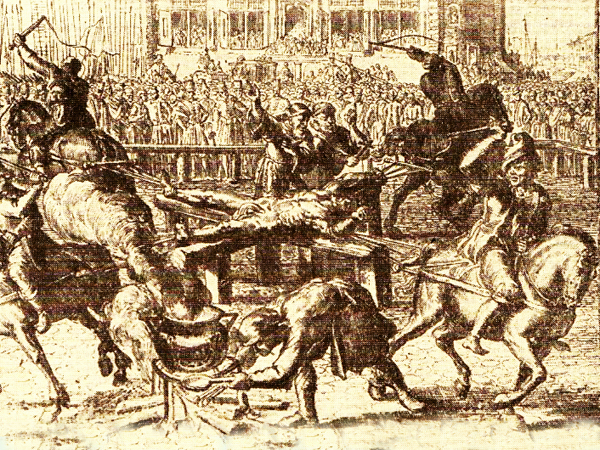 Execution of Michał Piekarski, who attempted to murder king Sigismund III of Poland in 1620. His body is being dismembered by horses.